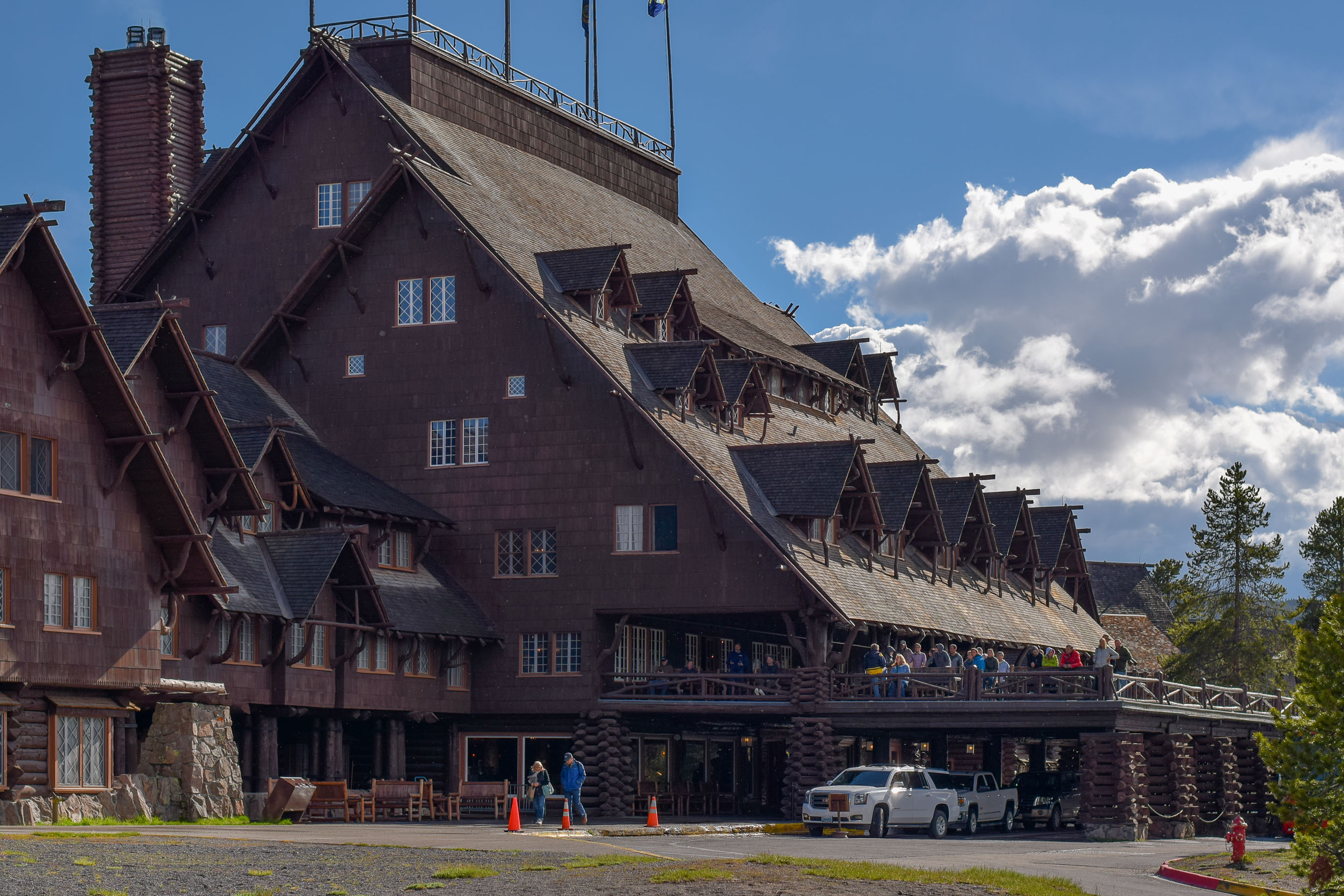 old faithful inn, hotel, yellowstone, national park, 2015, united states